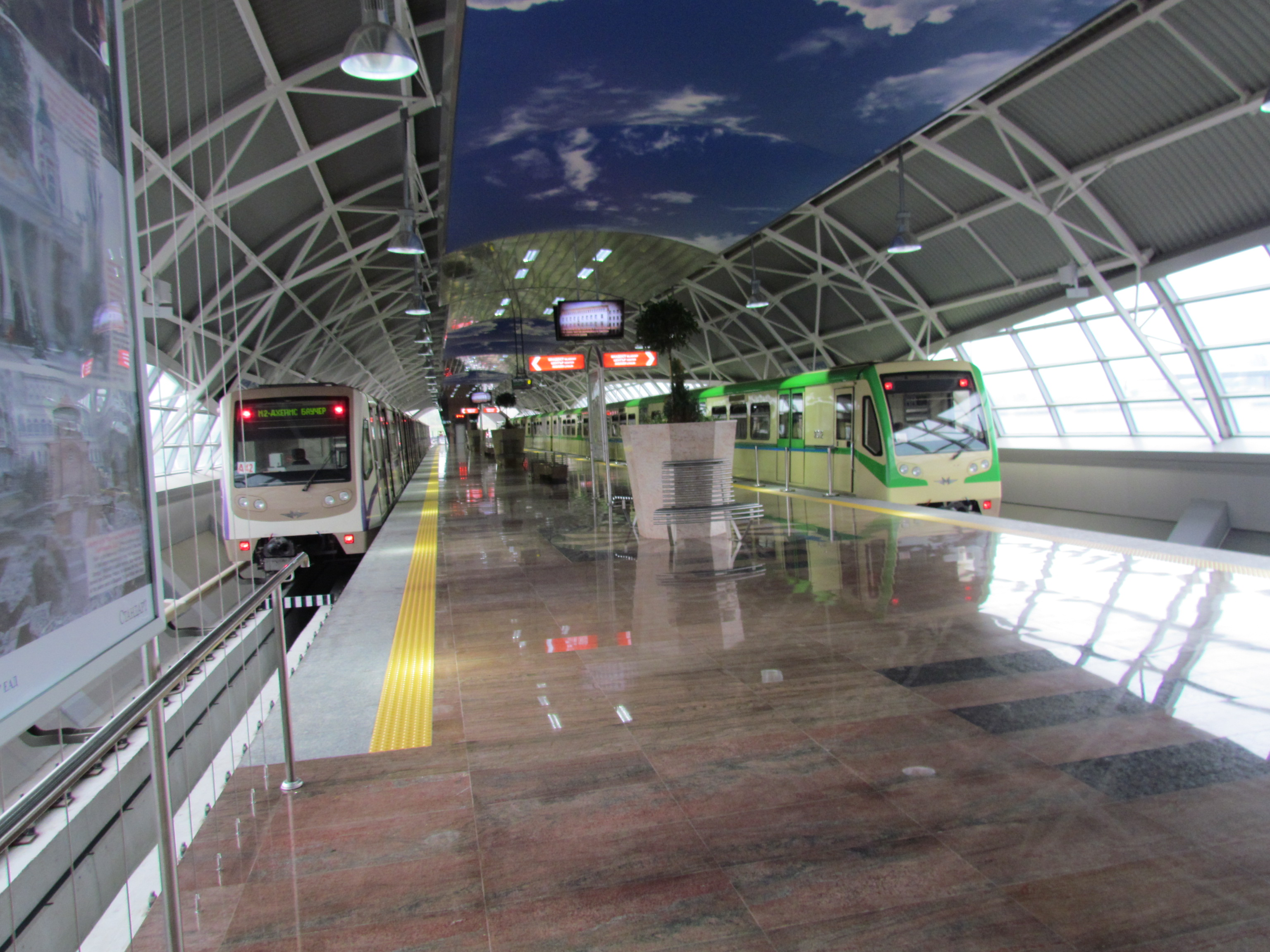 Sofia Airport Metro Station